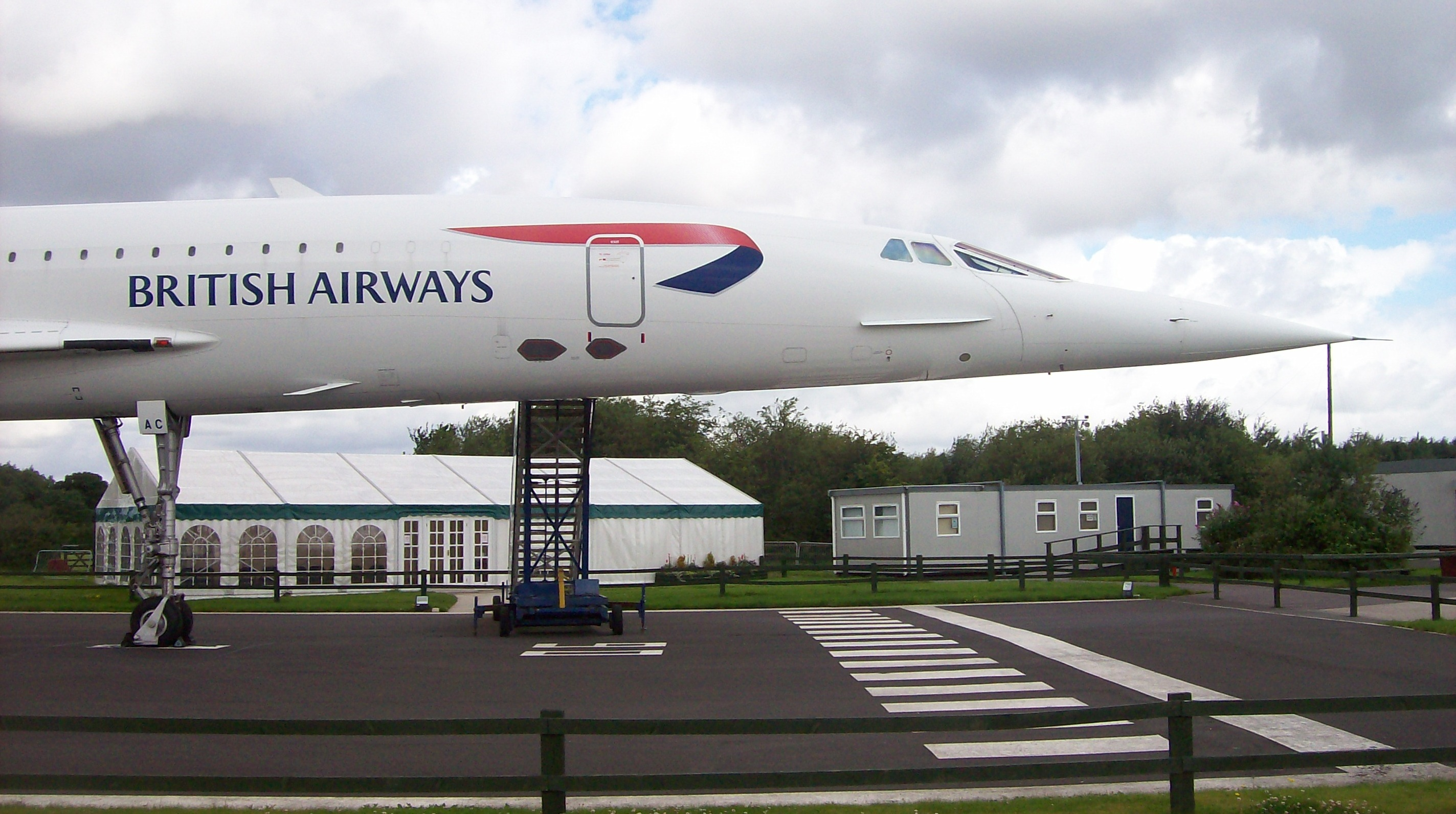 I Took This Photo on 28/7/07